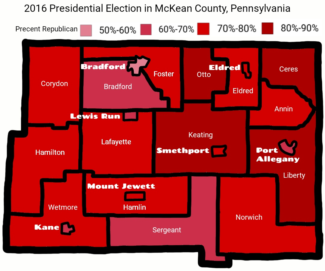 Results the 2016 presidential election in McKean County, Pennsylvania by Borough and Township